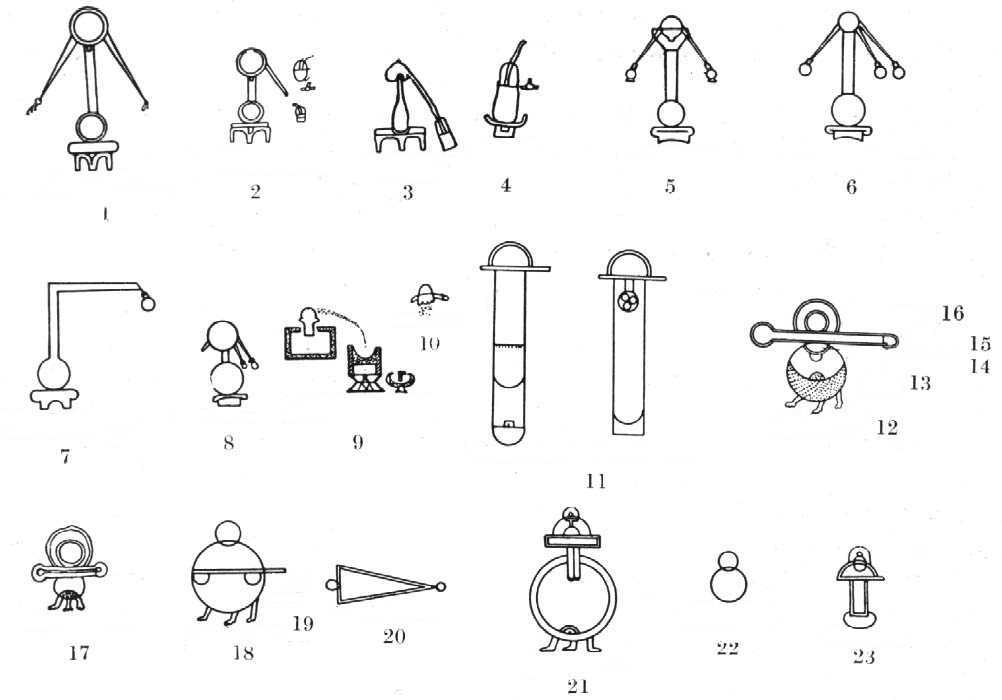 Illustrations of Alexandrian chemical apparatus, from a 10/11th century manuscript in St Mark's, Venice. These drawings were first published by the French chemist M. Berthelot in his Introduction a l'etude de Ia chimie des anciens et du moyen age, Paris, 1889.